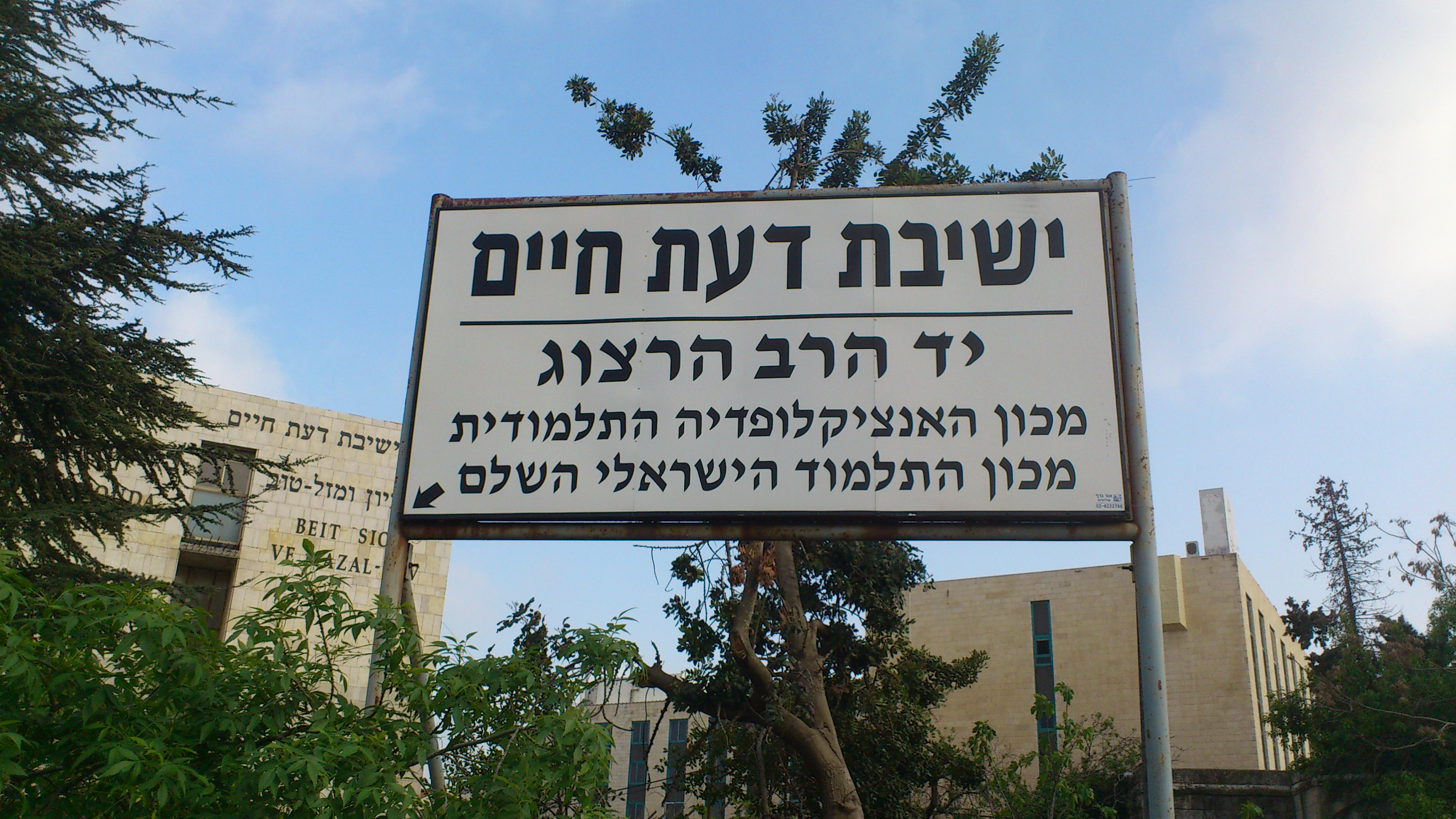 Rabby Herzog Institute